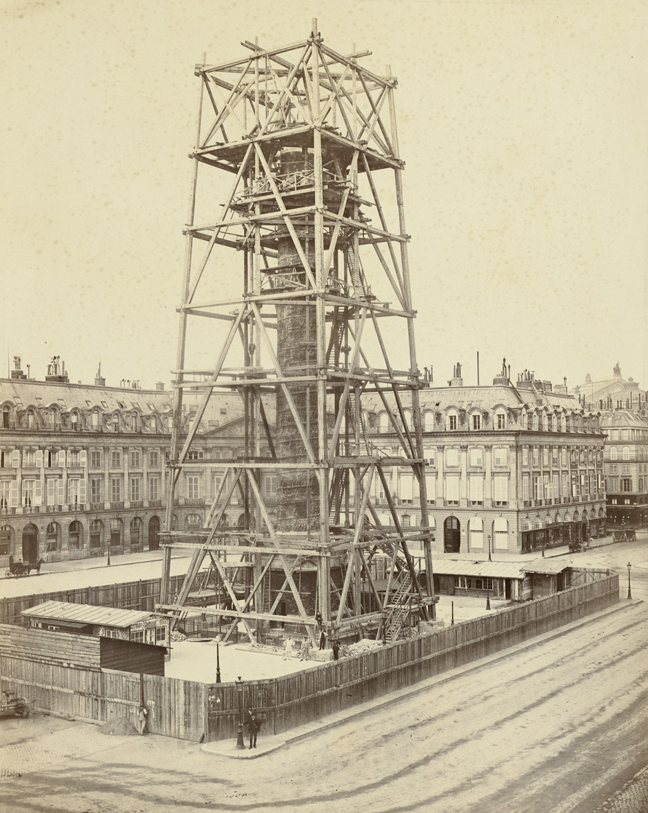 The reconstruction of the Vendome Column afthe the 1871 destruction, Paris. 1873